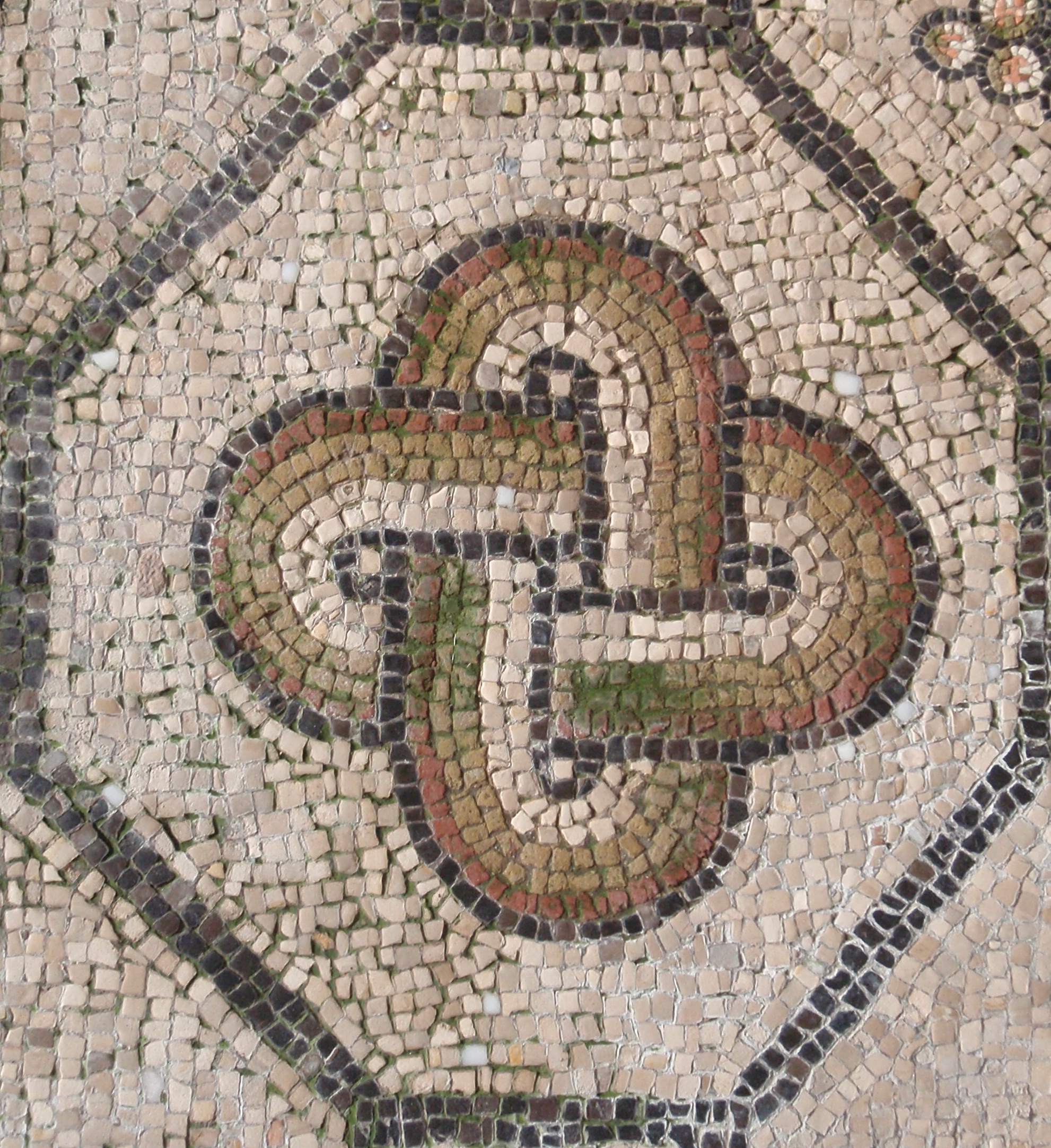 Solomon's knot, Basilica Patriarcale (Aquileia)